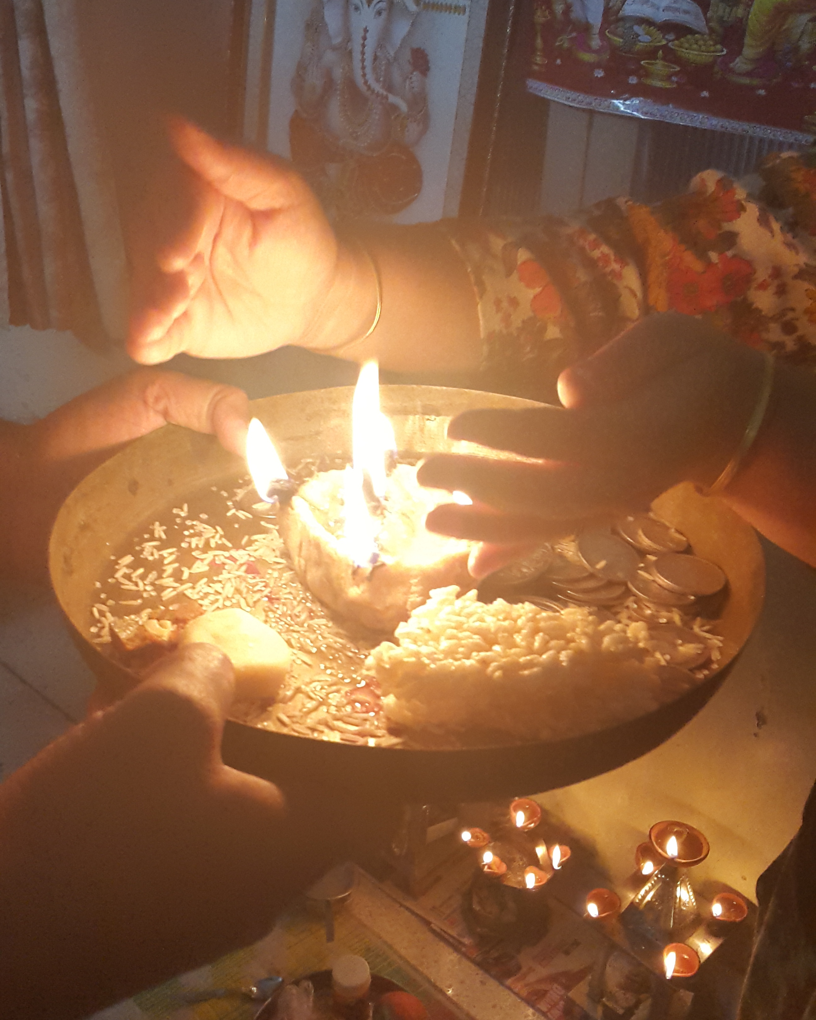 traditional diwali celebrations